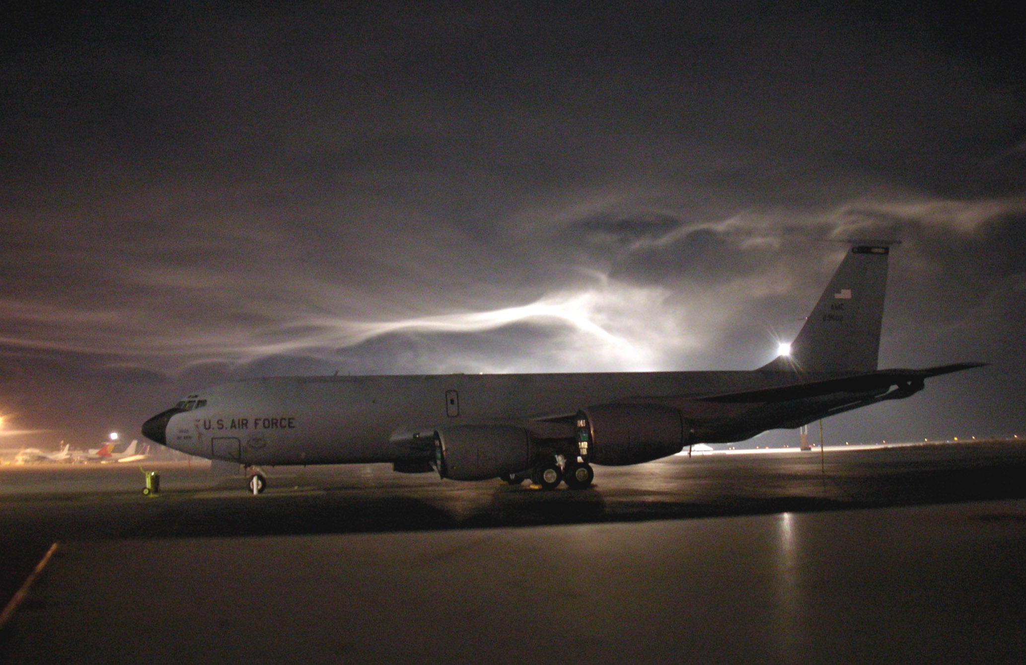 A KC-135 Stratotanker sits on the flightline at Manas Air Base, Kyrgyzstan, Thursday, Feb. 23, 2006. Ground crews will de-ice the tanker before it takes off on a refueling mission.